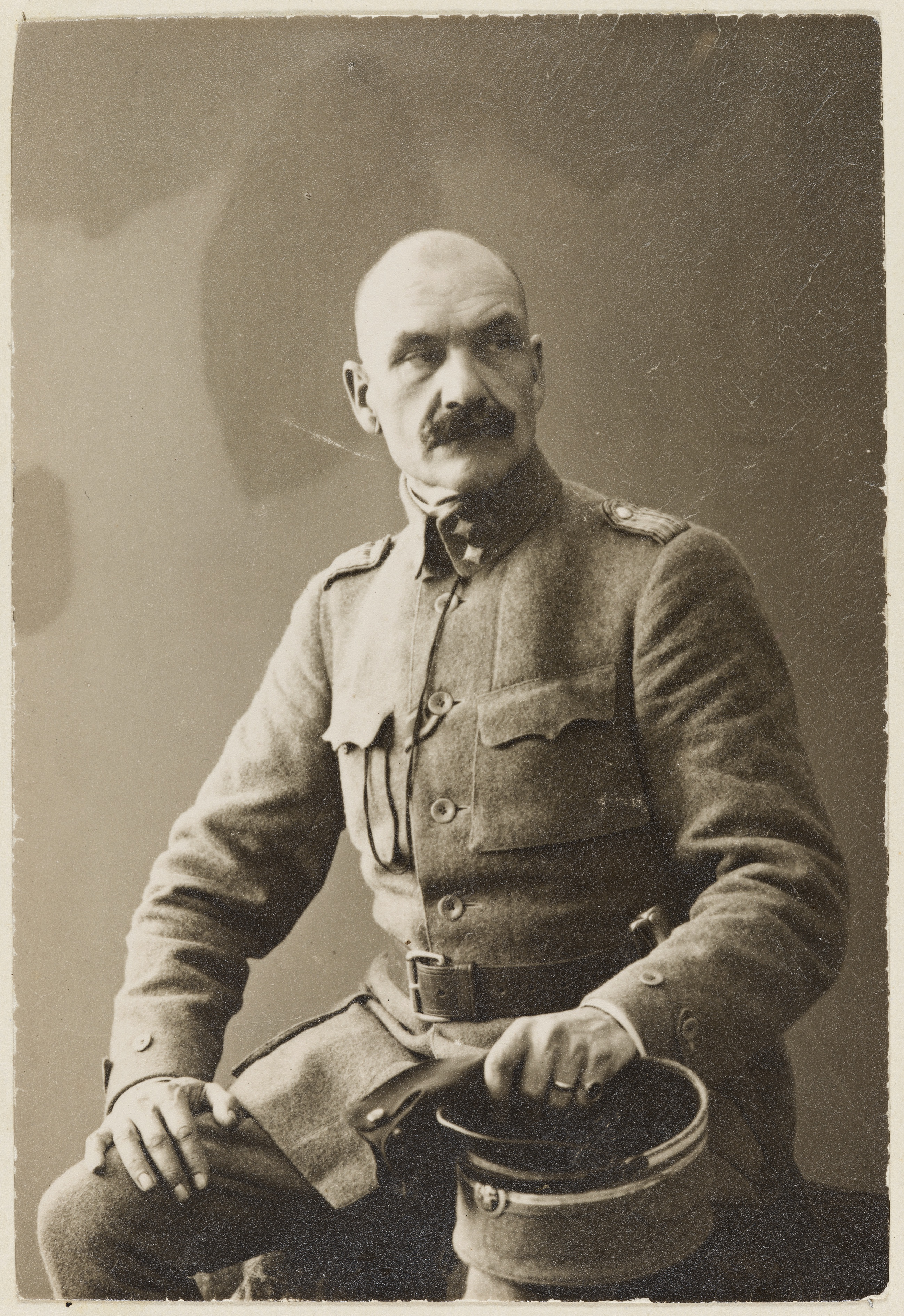 Akseli Gallen-Kallela in his lieutenant's uniform during the Finnish Civil War in 1918.